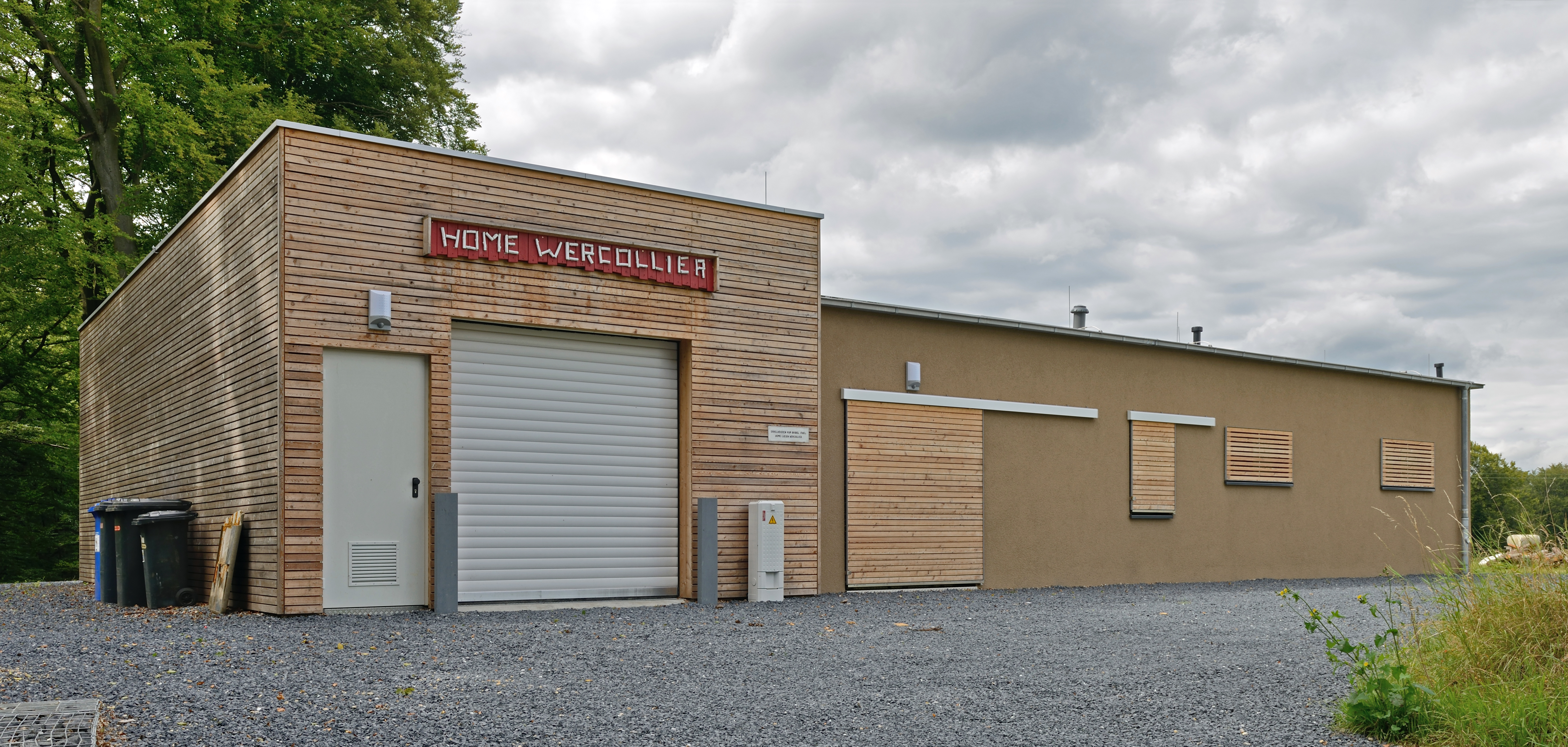 Luxembourg, Bridel: Home Lucien Wercollier (1908-2002) of the local scouting group Däreldéieren (Hedgehogs) (FNEL) inaugurated in Sept. 2011.